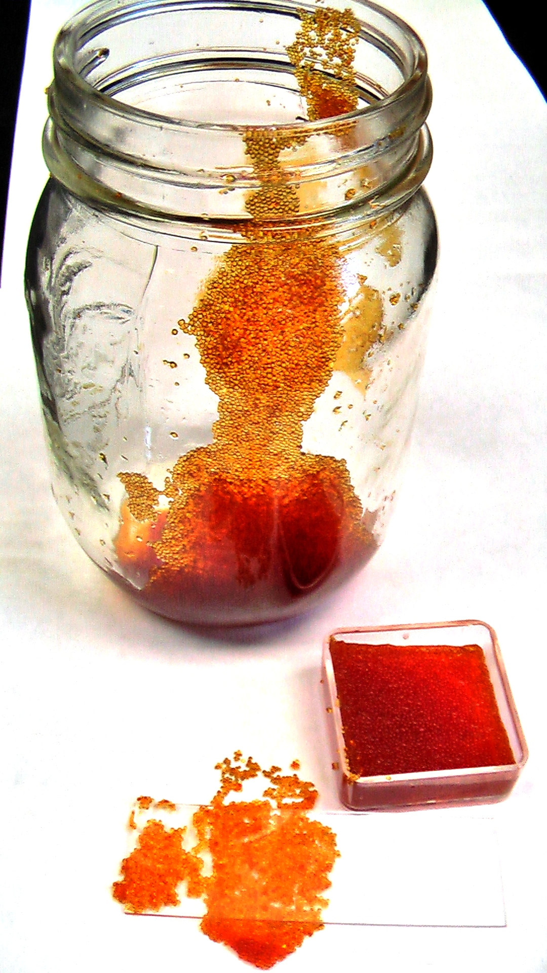 Picture of resin beads taken from customer sink after water softener failure.